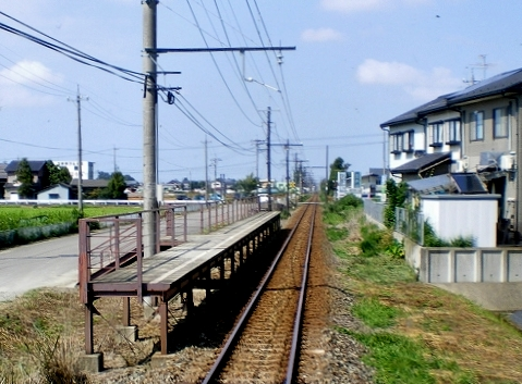 Echizen Railway Mikuni Awara Line Jinaigurando-mae Station Platform (This is temporary photograph. Please upload a new photograph.)